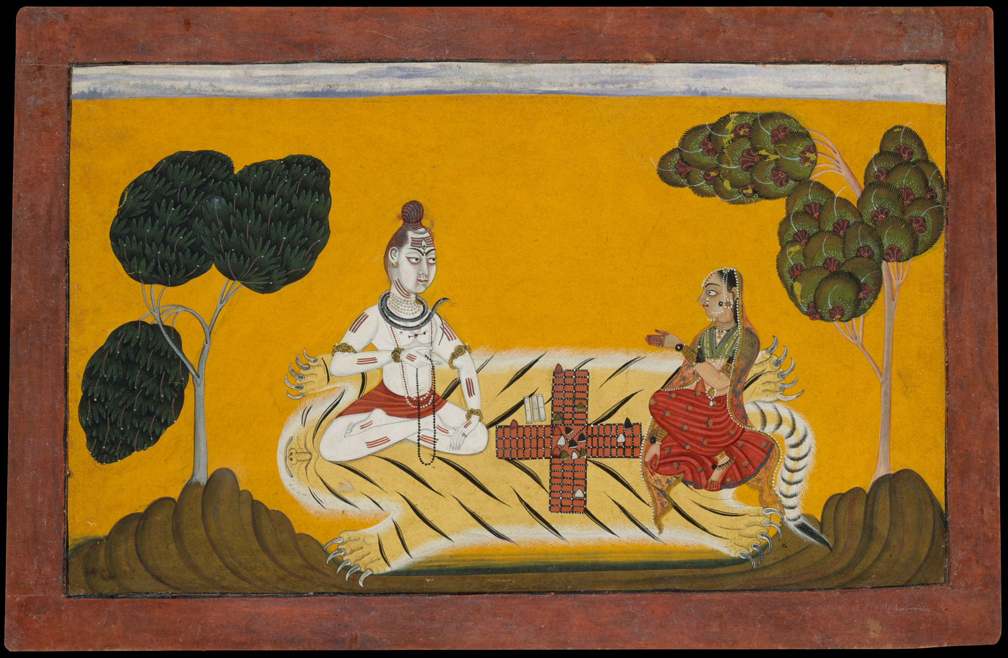 Shiva and Parvati Playing Chaupar: Page from a dispersed Rasamanjari (Essence of the Experience of Delight).Ink, opaque watercolor, silver, and gold on paper. India (Basohli, Jammu)